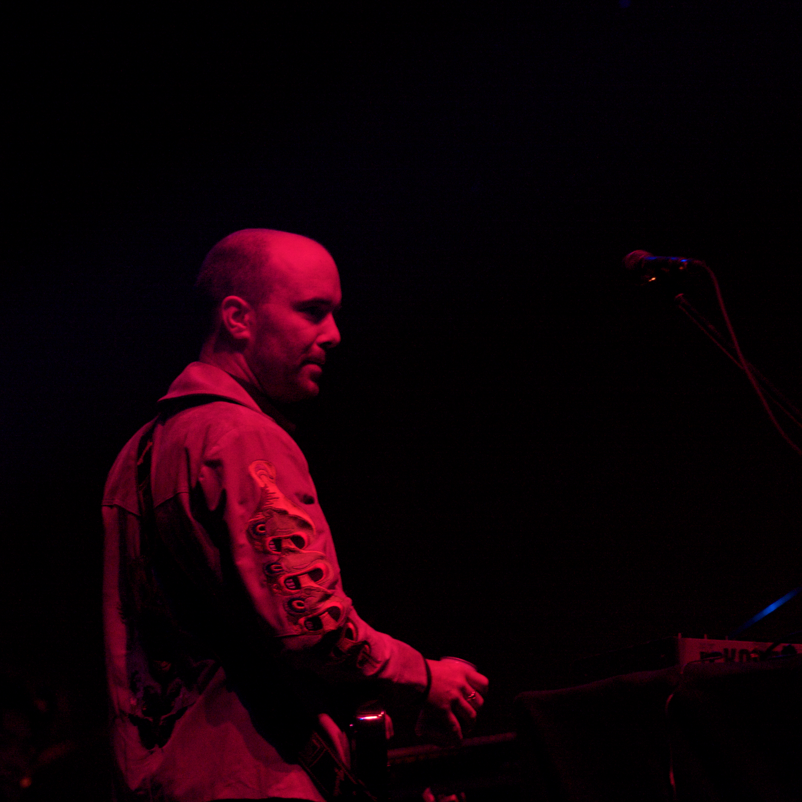 Cian Ciaran performing with the Super Furry Animals at the Summersonic Festival, Tokyo, Japan, 2008.